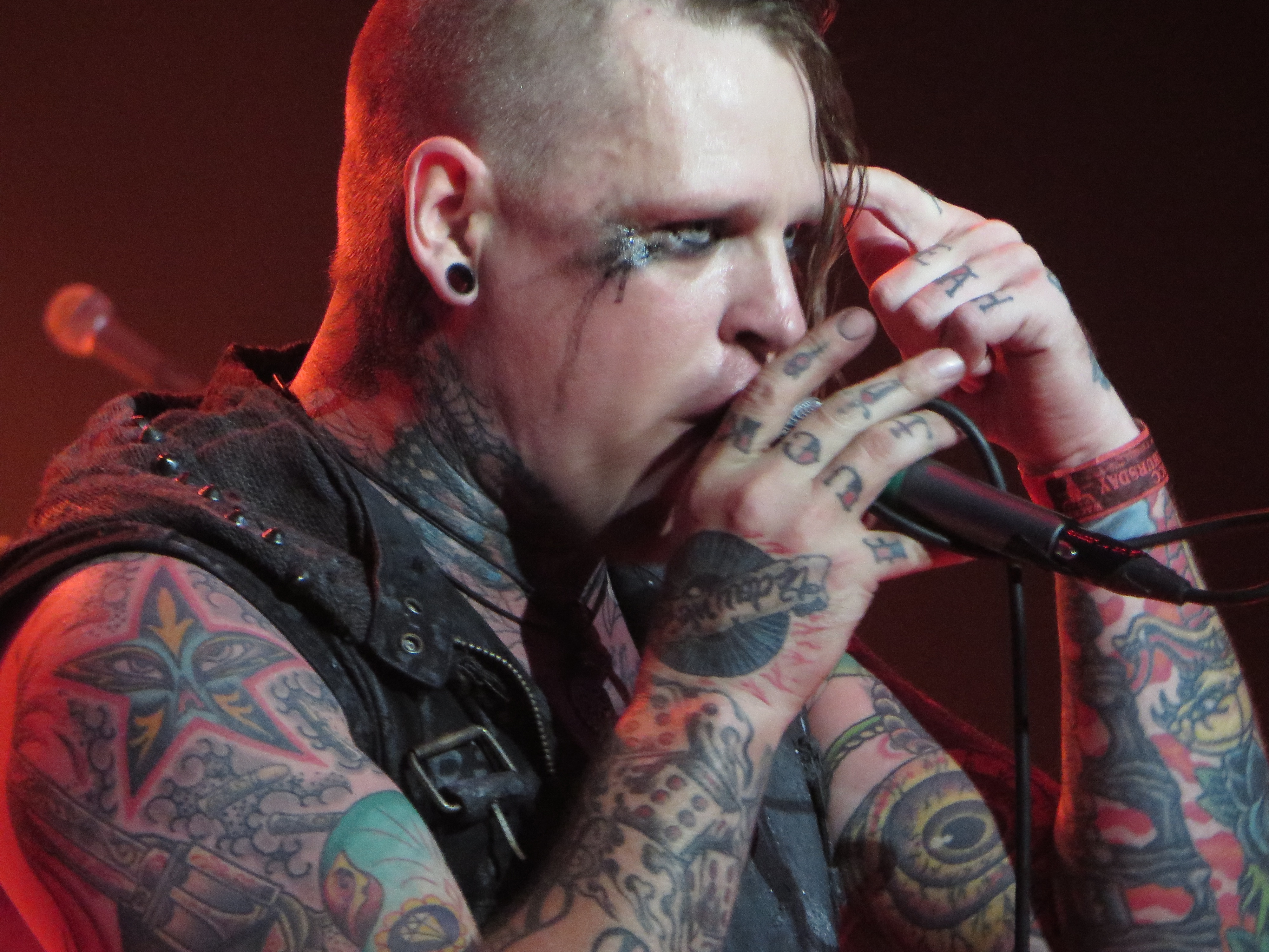 Combichrist singer Andy LaPlegua at Wacken Open Air 2015